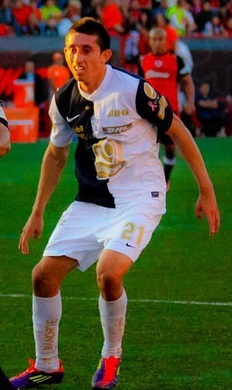 Mexican player Héctor Herrera